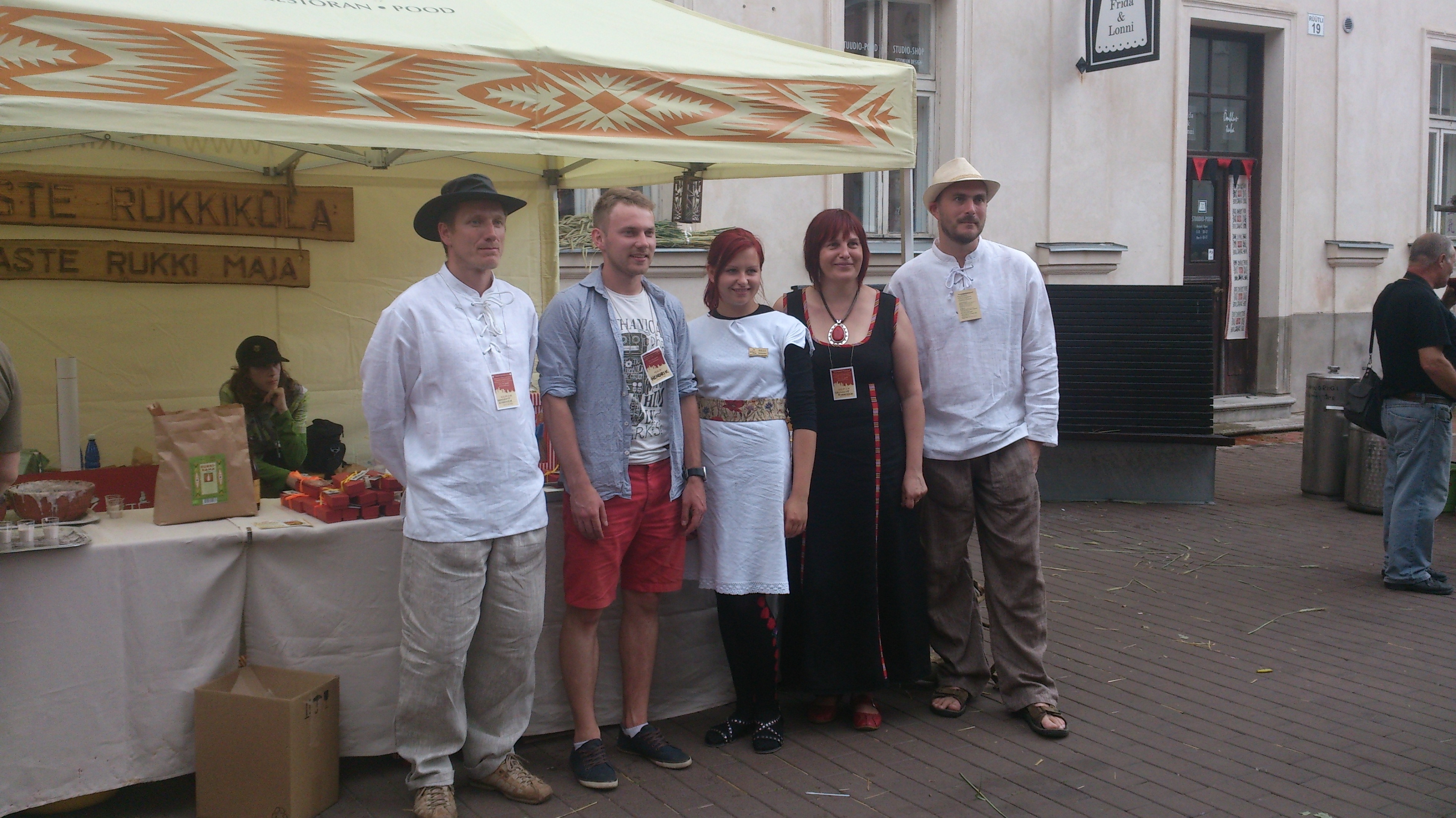 Delegation of Sangaste Rukki Maja (Sangaste Rye House) at the 2014 Tartu Hanseatic Days